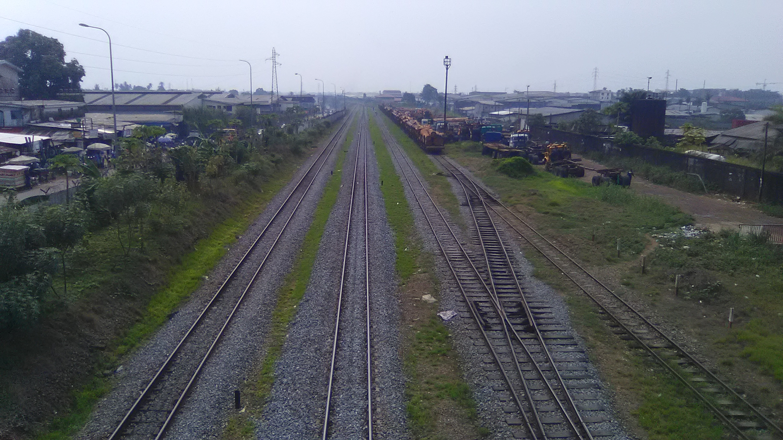 This is an image with the theme "Africa on the Move or Transport" from: Cameroon